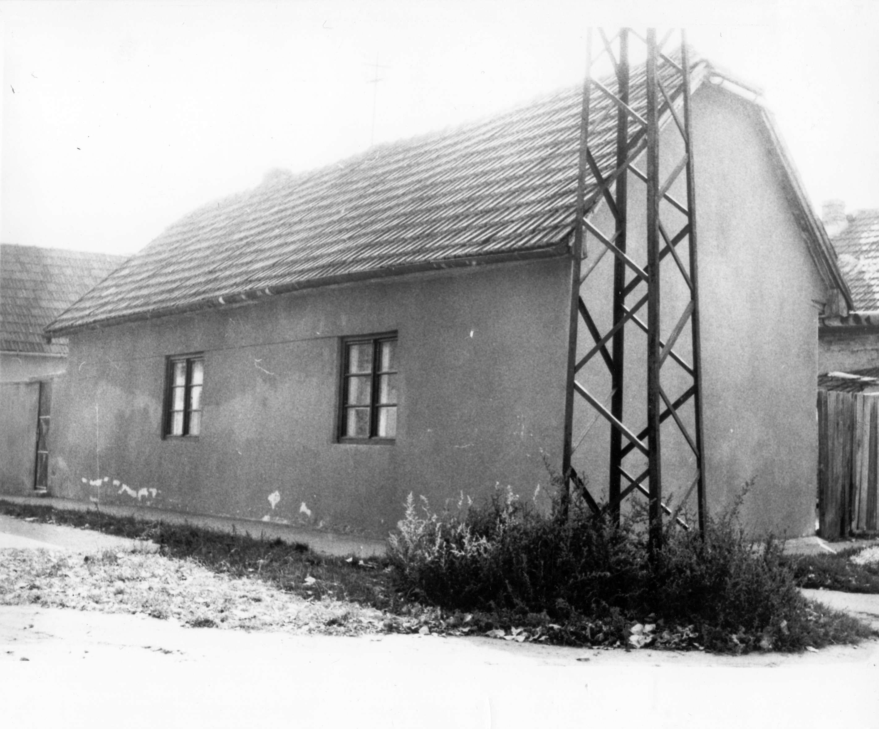 Birth house of Aksentije Marodić in Subotica